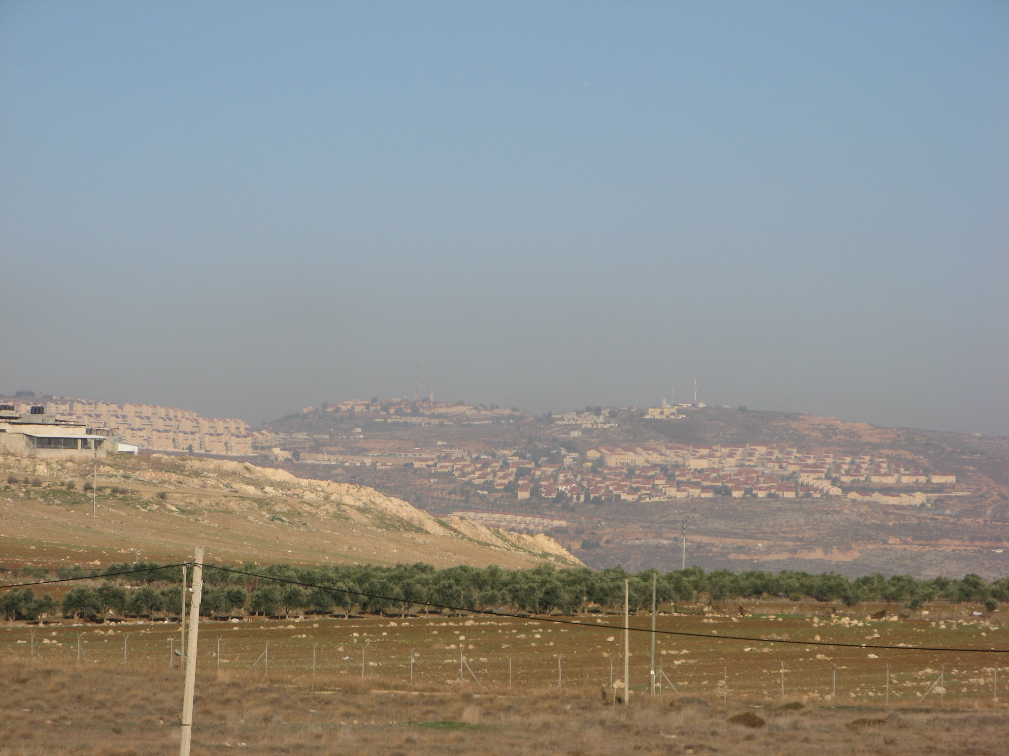 Kohav Yaakov and Tel Zion from Adam. Psagot can be seen on the left side, on top of the mountain.